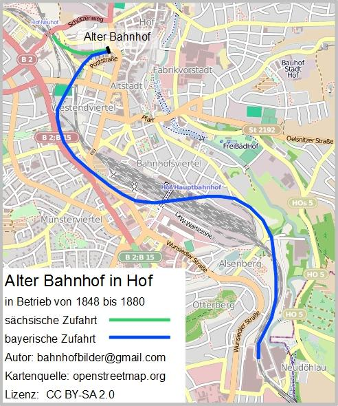 Map of the "Old Station" in Hof